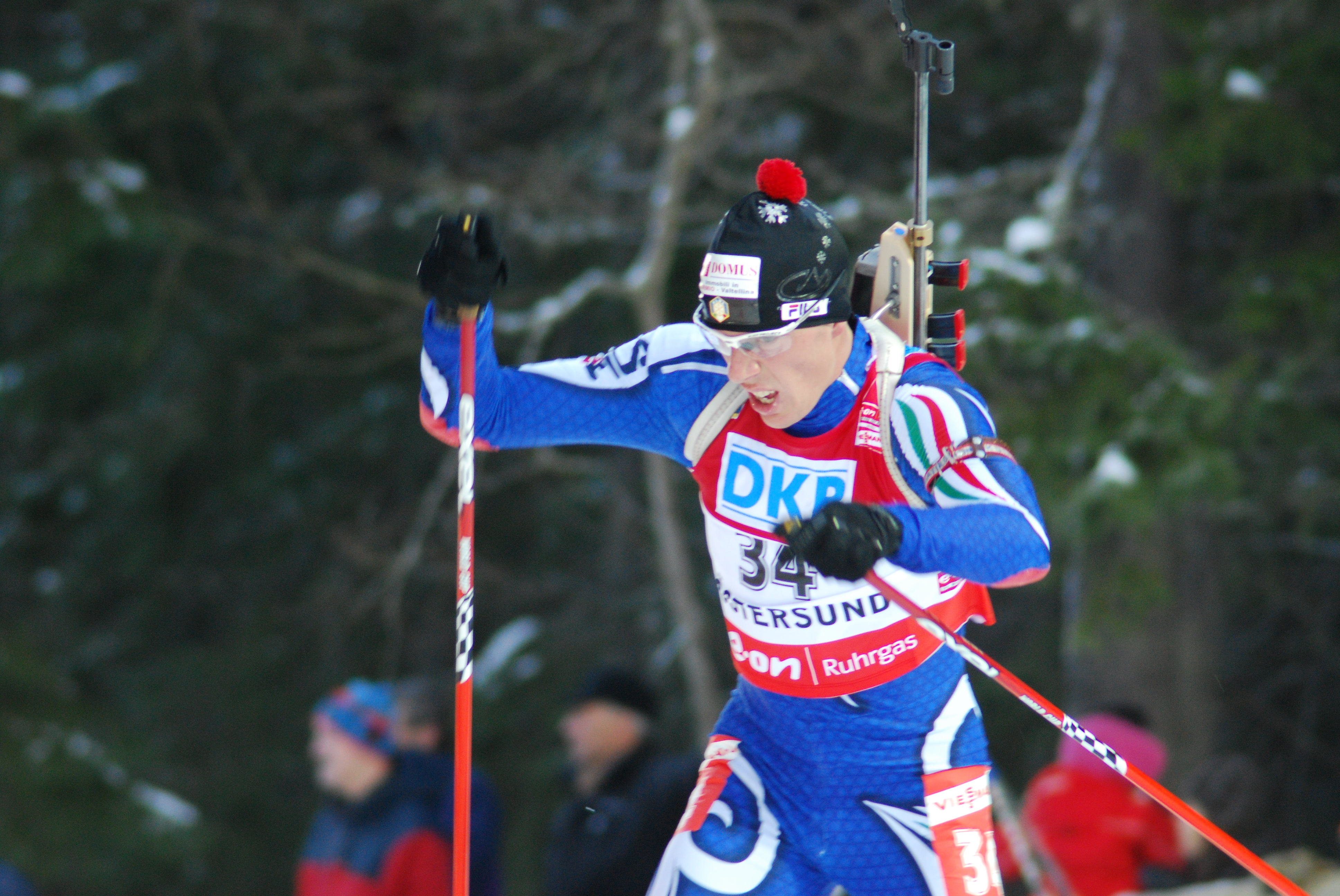 Italian biathlete Christian Martinelli during the World Championships in Östersund 2008.